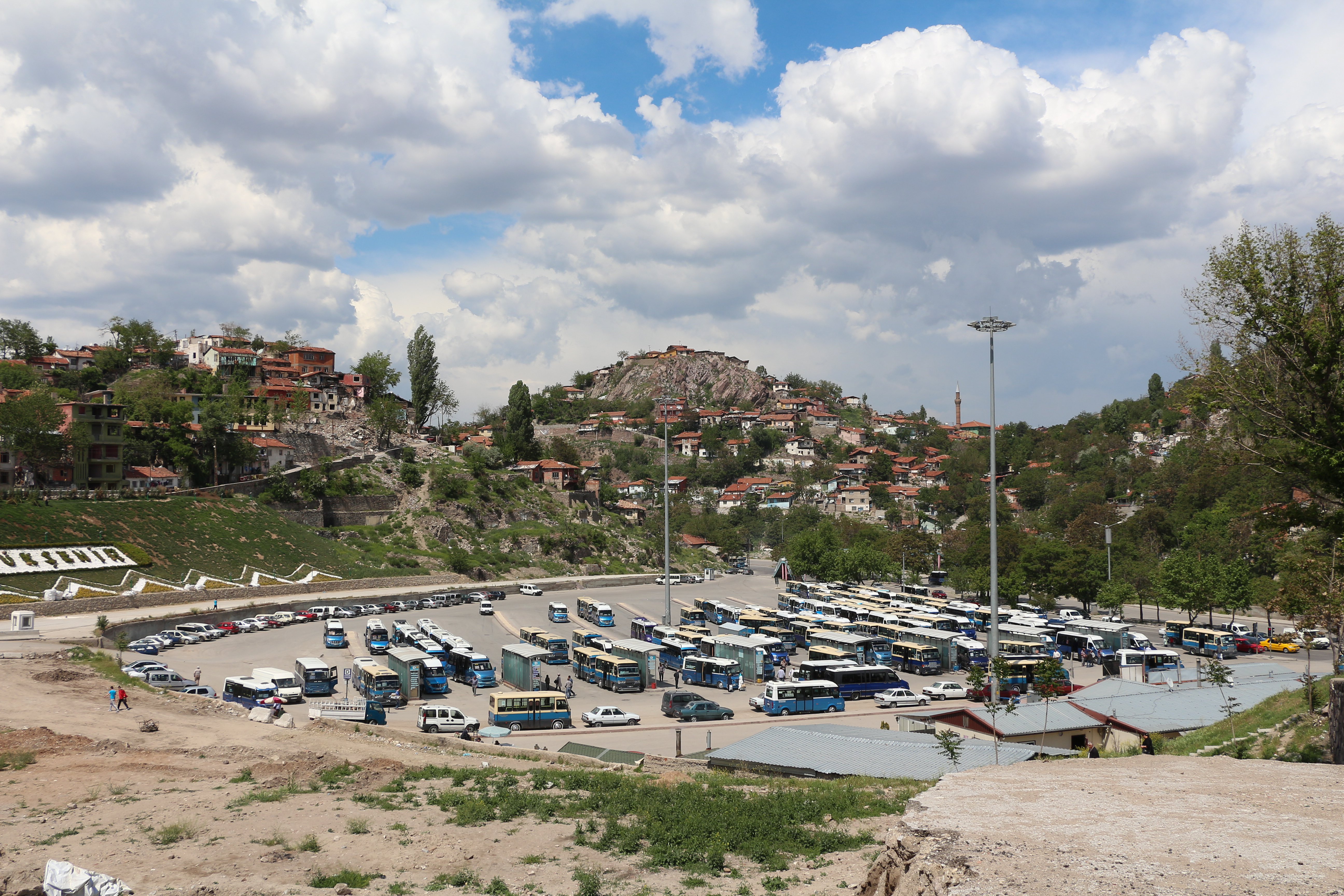 Minibus station, Ulus, Ankara